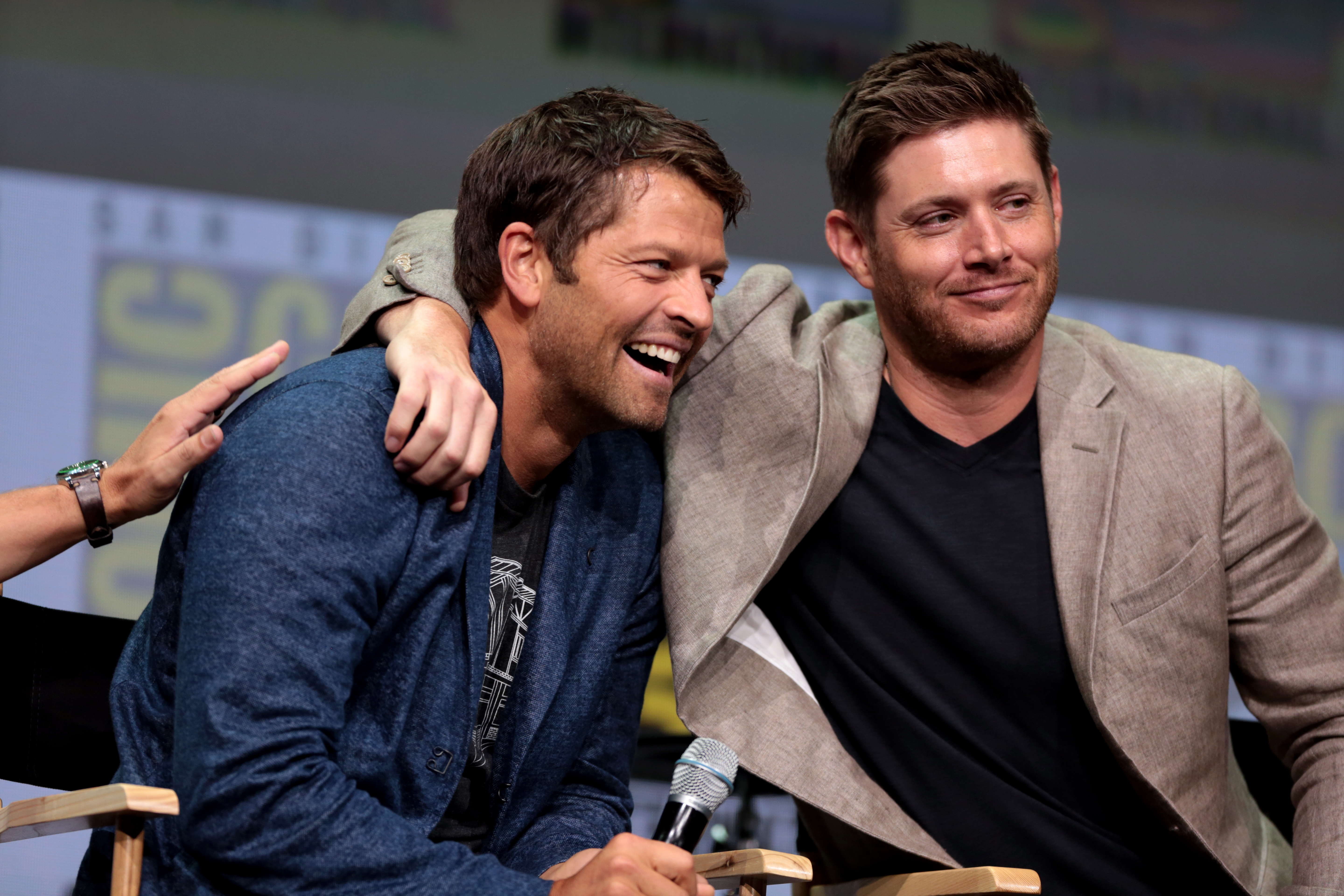 Misha Collins and Jensen Ackles speaking at the 2017 San Diego Comic Con International, for "Supernatural", at the San Diego Convention Center in San Diego, California.